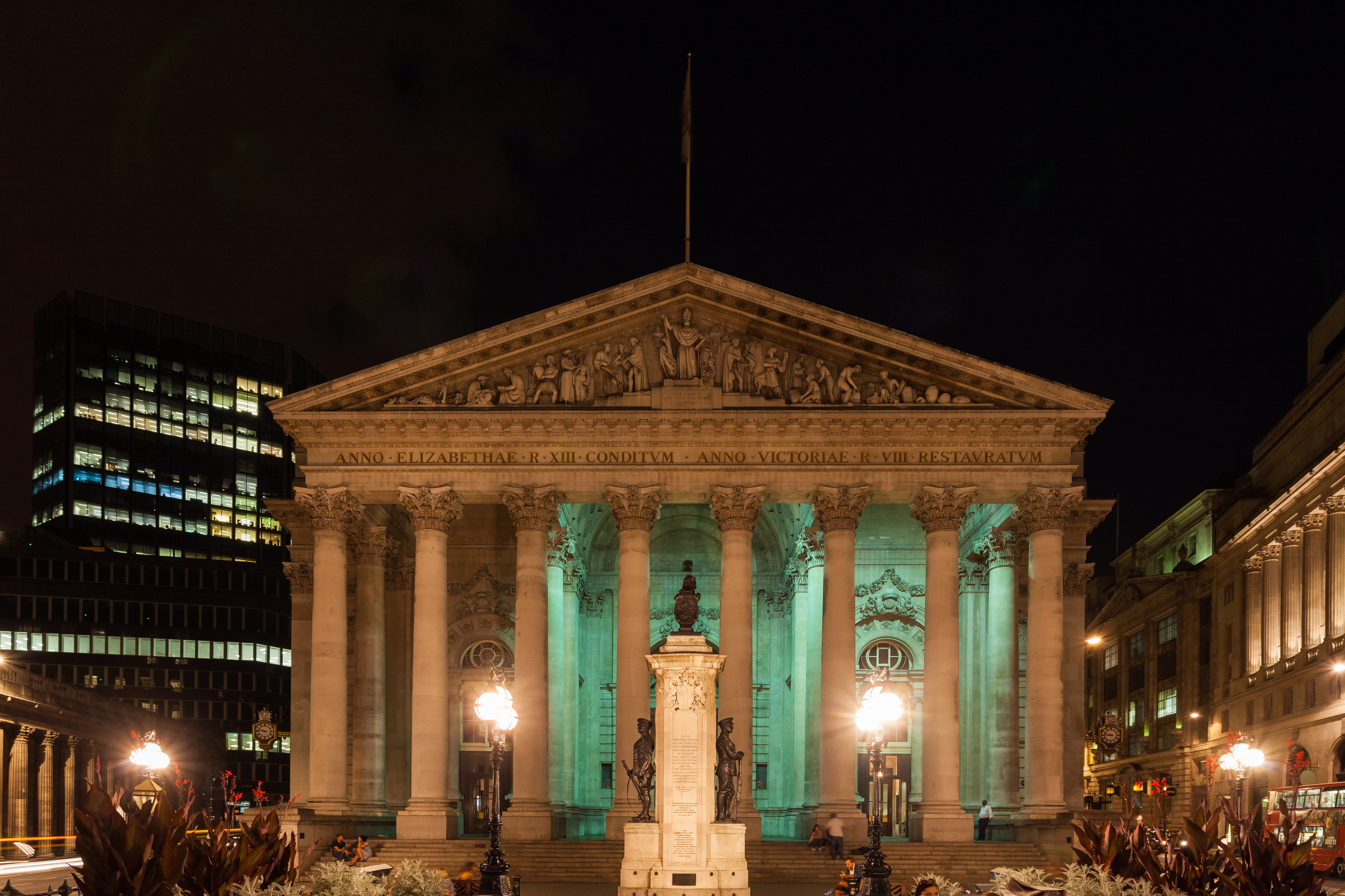 Stock exchange, London, England